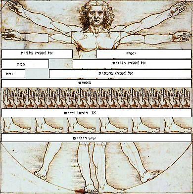 translation to Hebrew of Image:Vitruvian Man Measurements.png